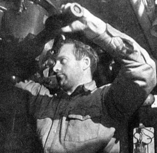 Captain Romanowski, c/o of Polish Submarines "Jastrzab" and "Dzik"